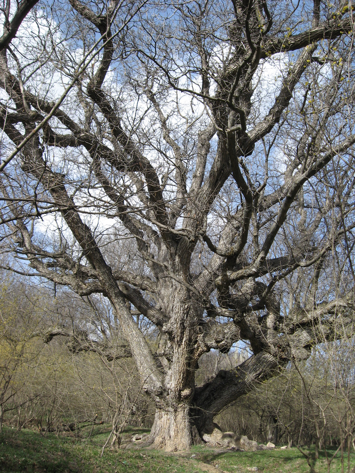 an old Buttonwood in Hir, Alamut